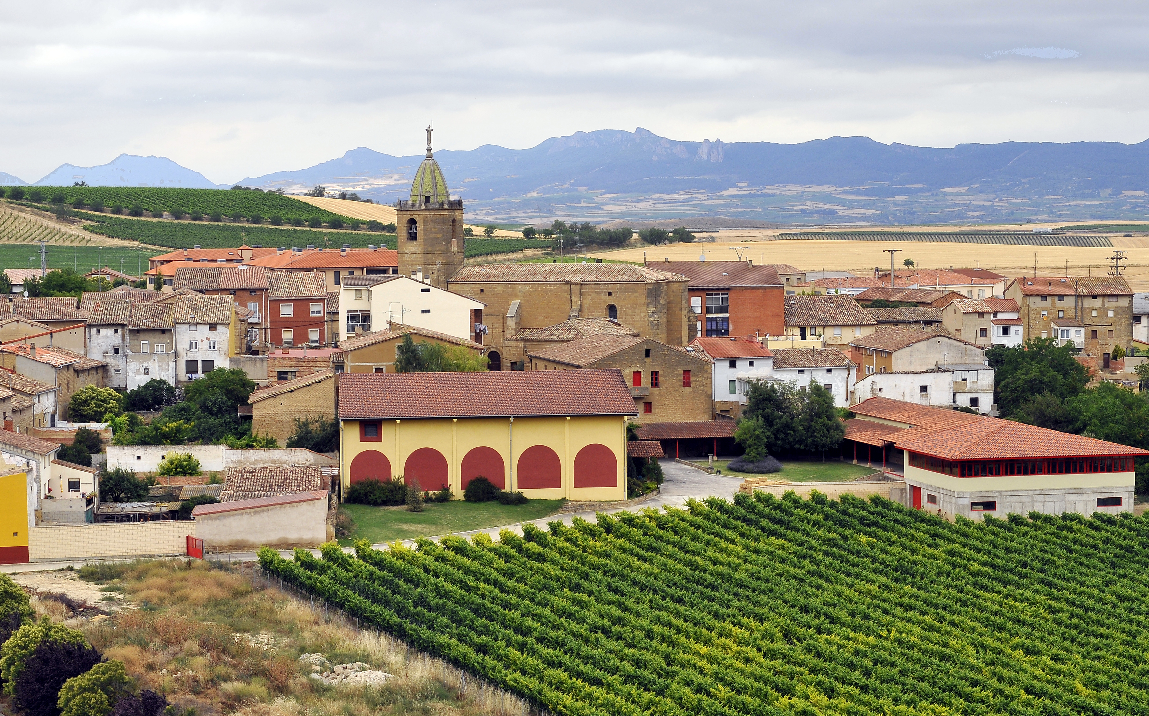 The village and its surroundings. Rodezno, La Rioja, Spain